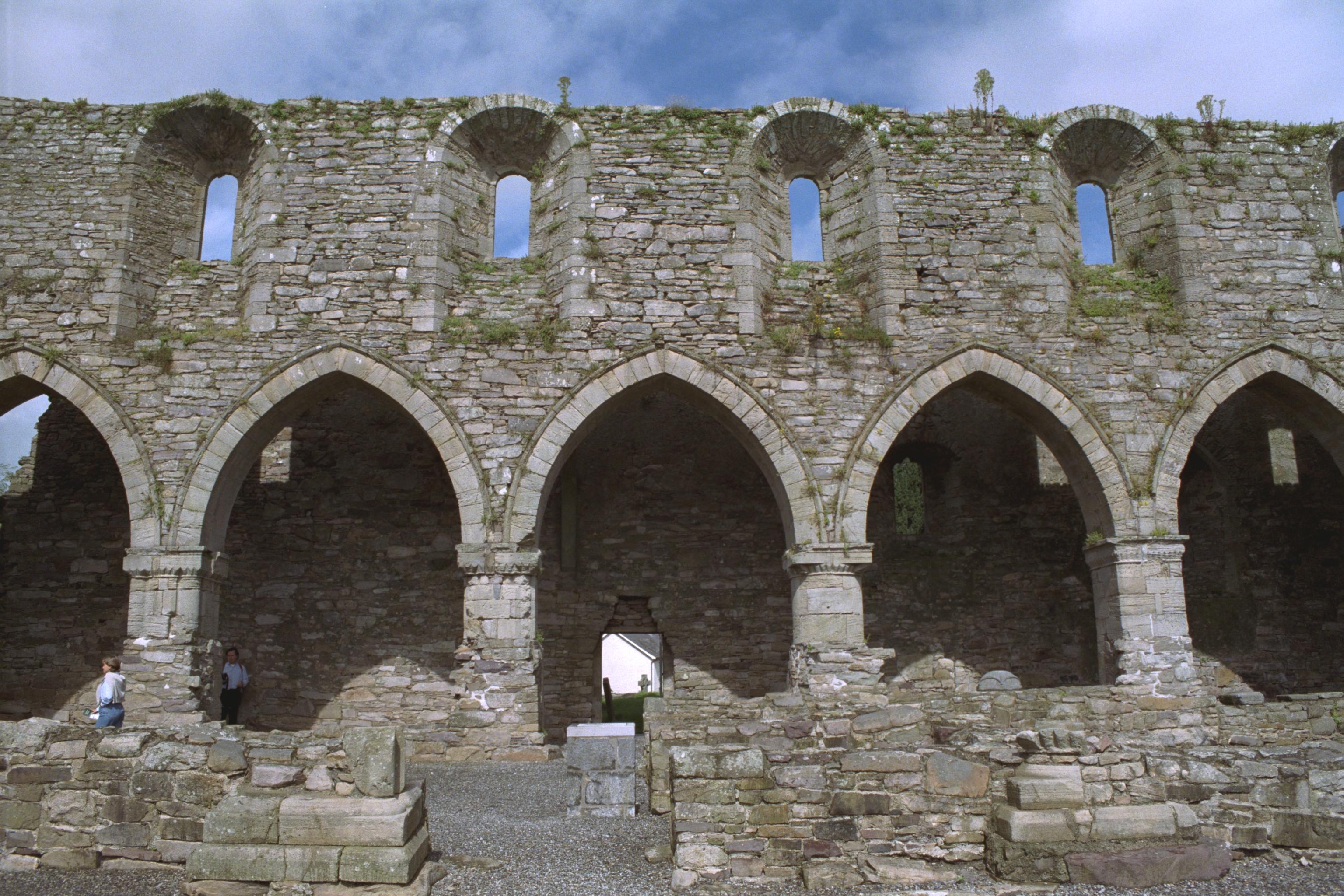 Jerpoint Abbey, County Kilkenny, Ireland Arches on the northern side of the nave